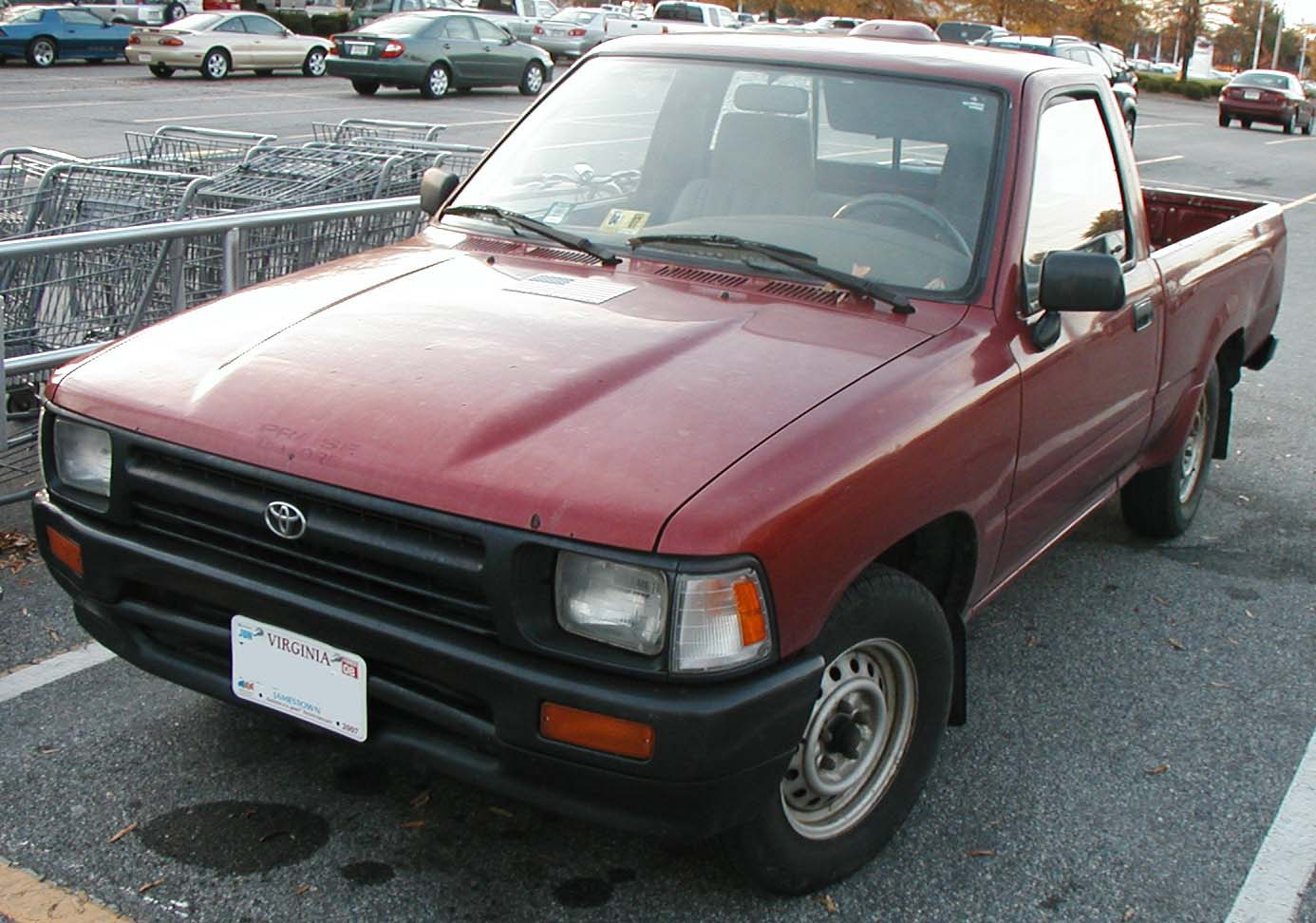 1989-1995 Toyota Pick-Up photographed in USA.